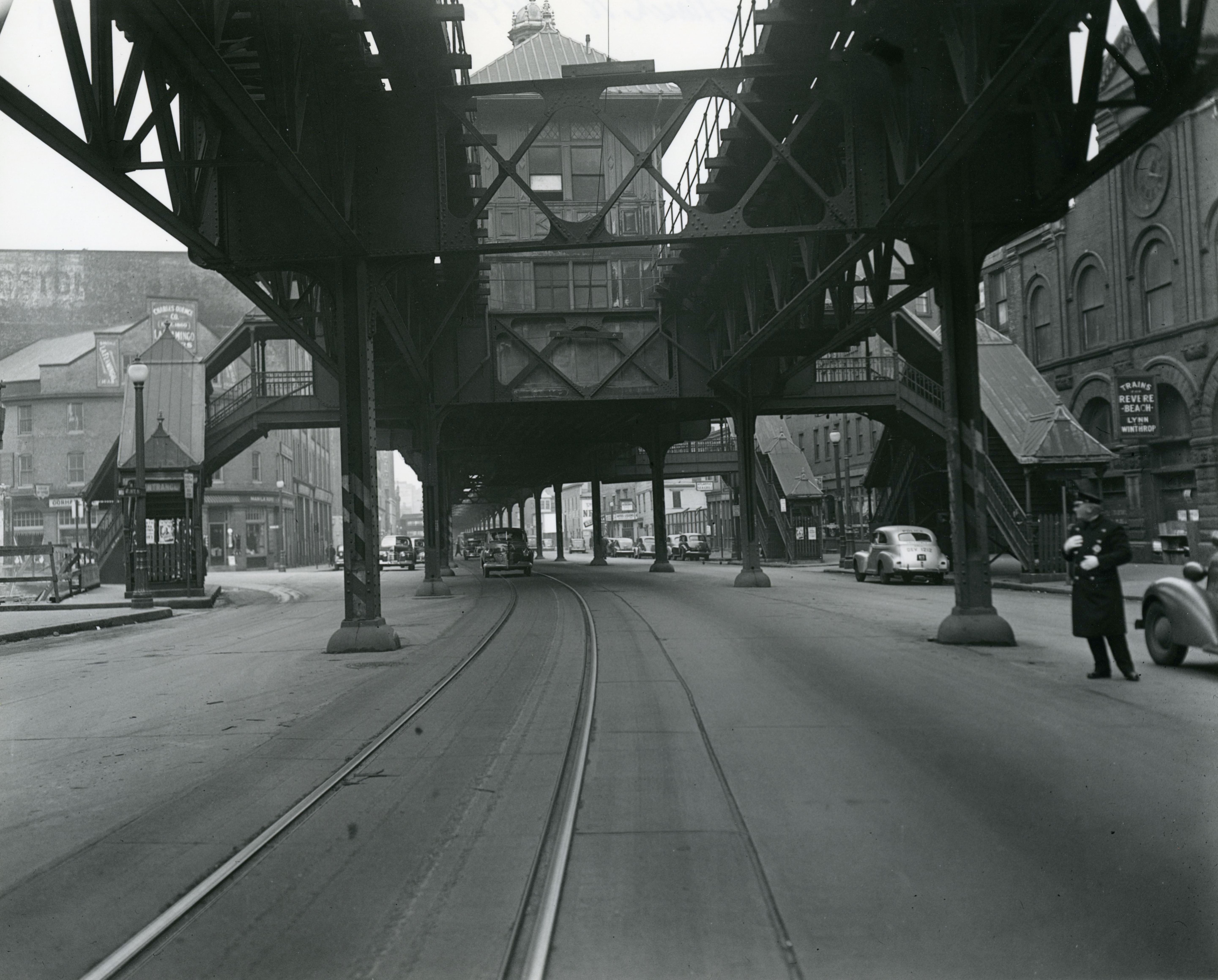 Rowes Wharf station in March 1942, four years after closure and shortly before being torn down for steel for the war effort. A sign for the Boston, Revere Beach Lynn railroad - itself closed over a year before - is visible at right.